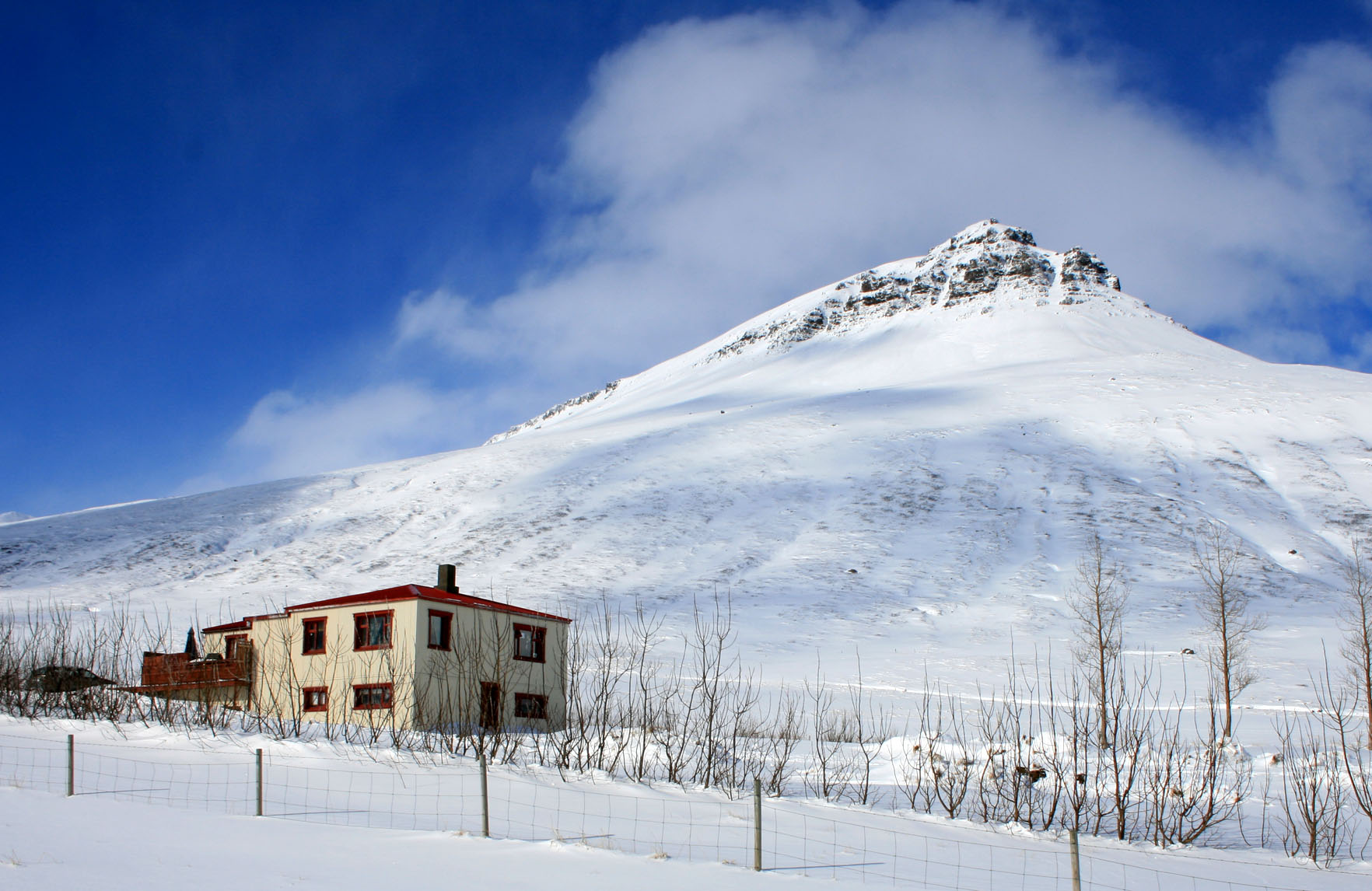 Seldalur in Norðfjörður East Iceland